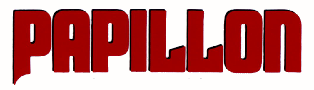 Detail of the film poster from the movie Papillon